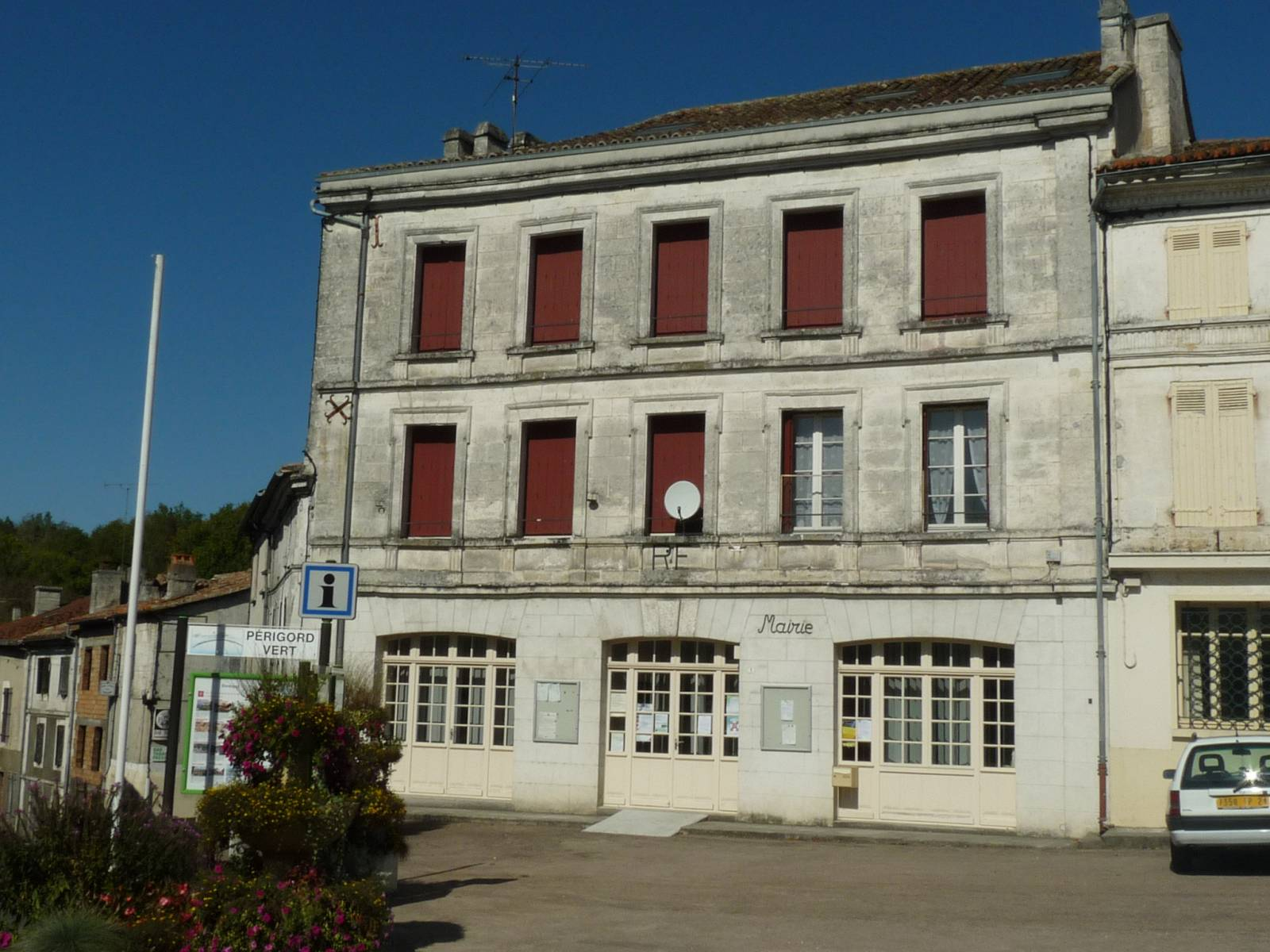 town hall of La Rochebeaucourt, Dordogne, SW France